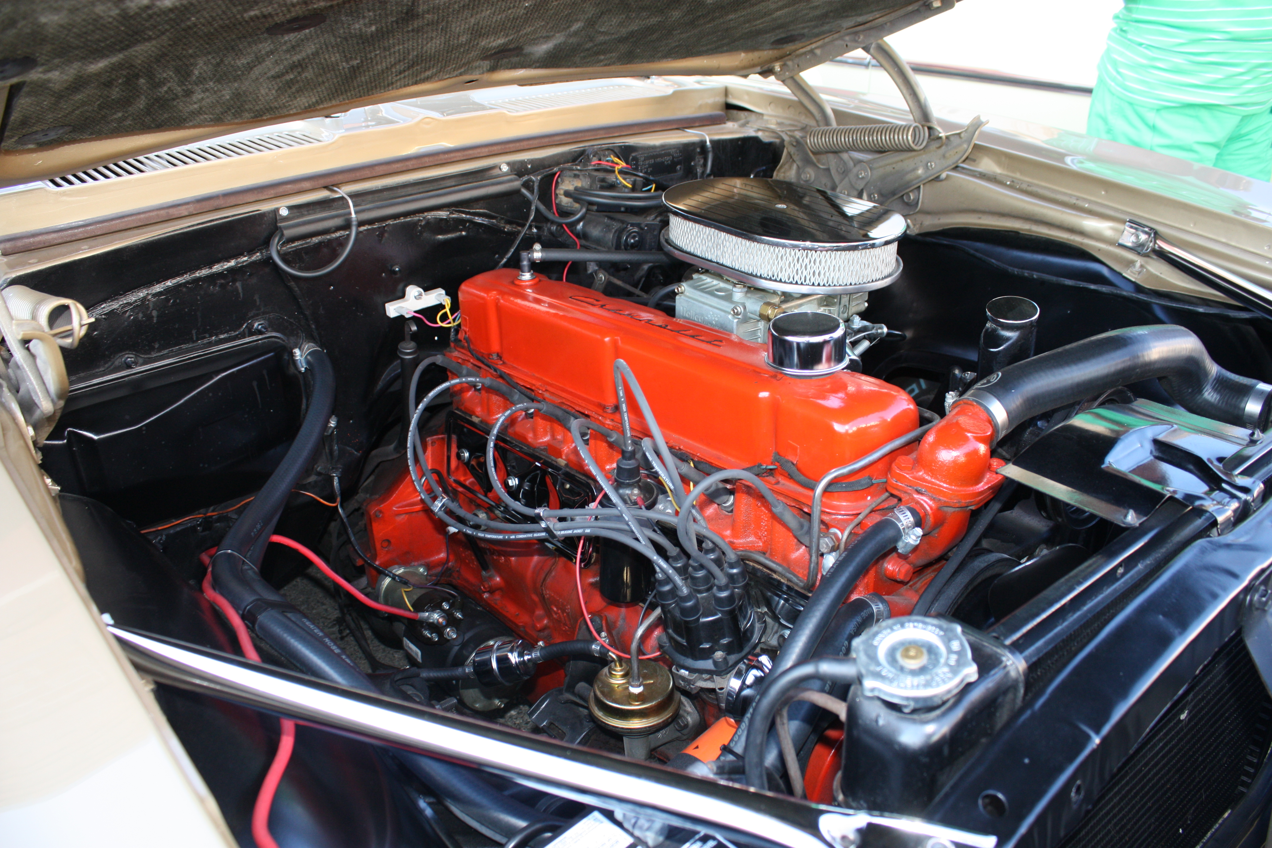 Auburn, CA Cruise Night 7/10/09. Straight Six Camaro in gold.